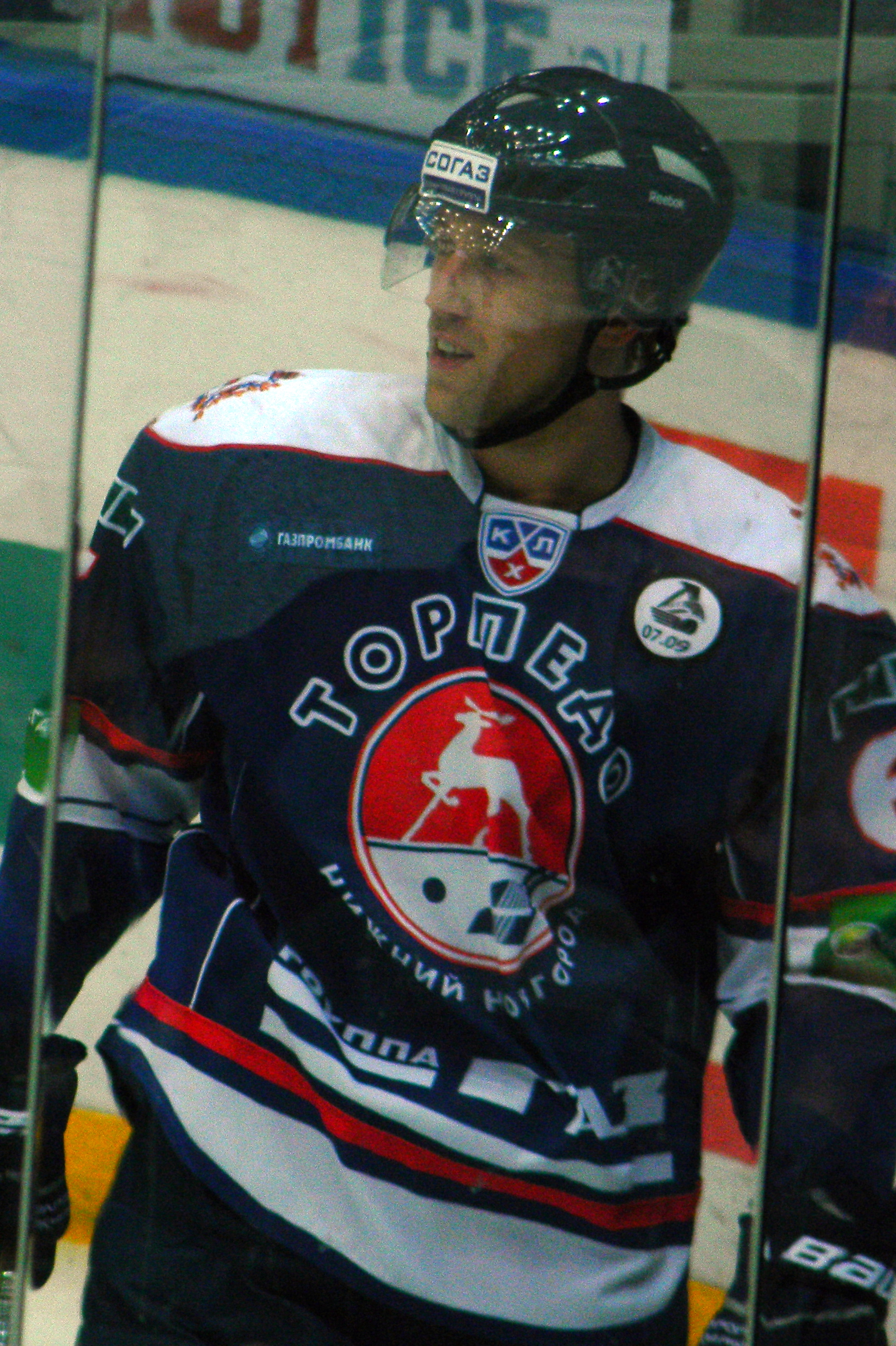 Martin Thornberg, a hockey player from Torpedo Nizhny Novgorod